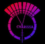 CHARISSA logo based on Scottish thistle